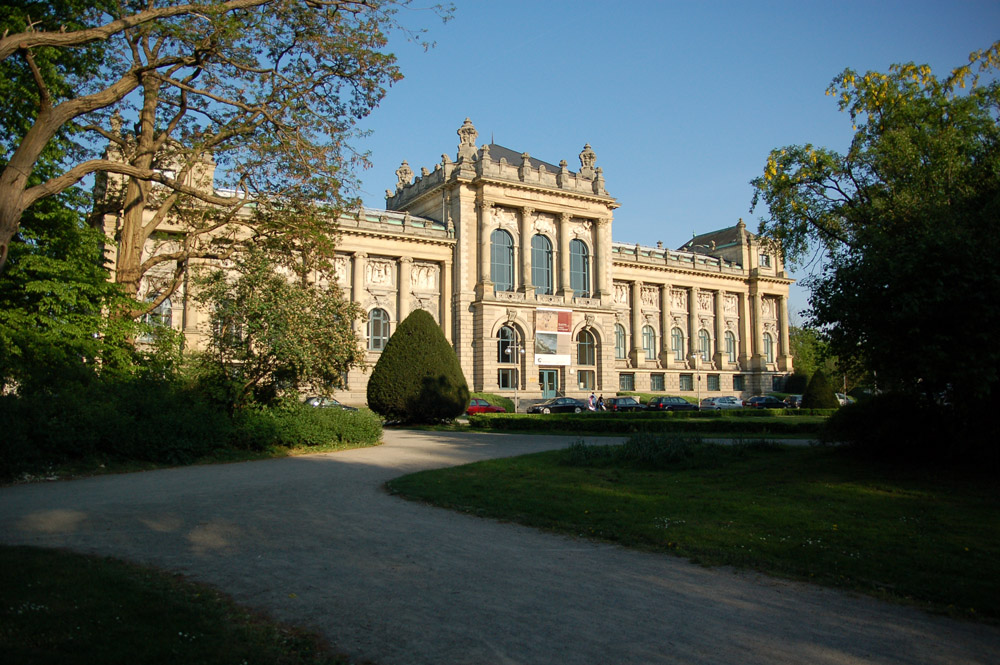 Landesmuseum Hannover, Lower Saxony, Germany